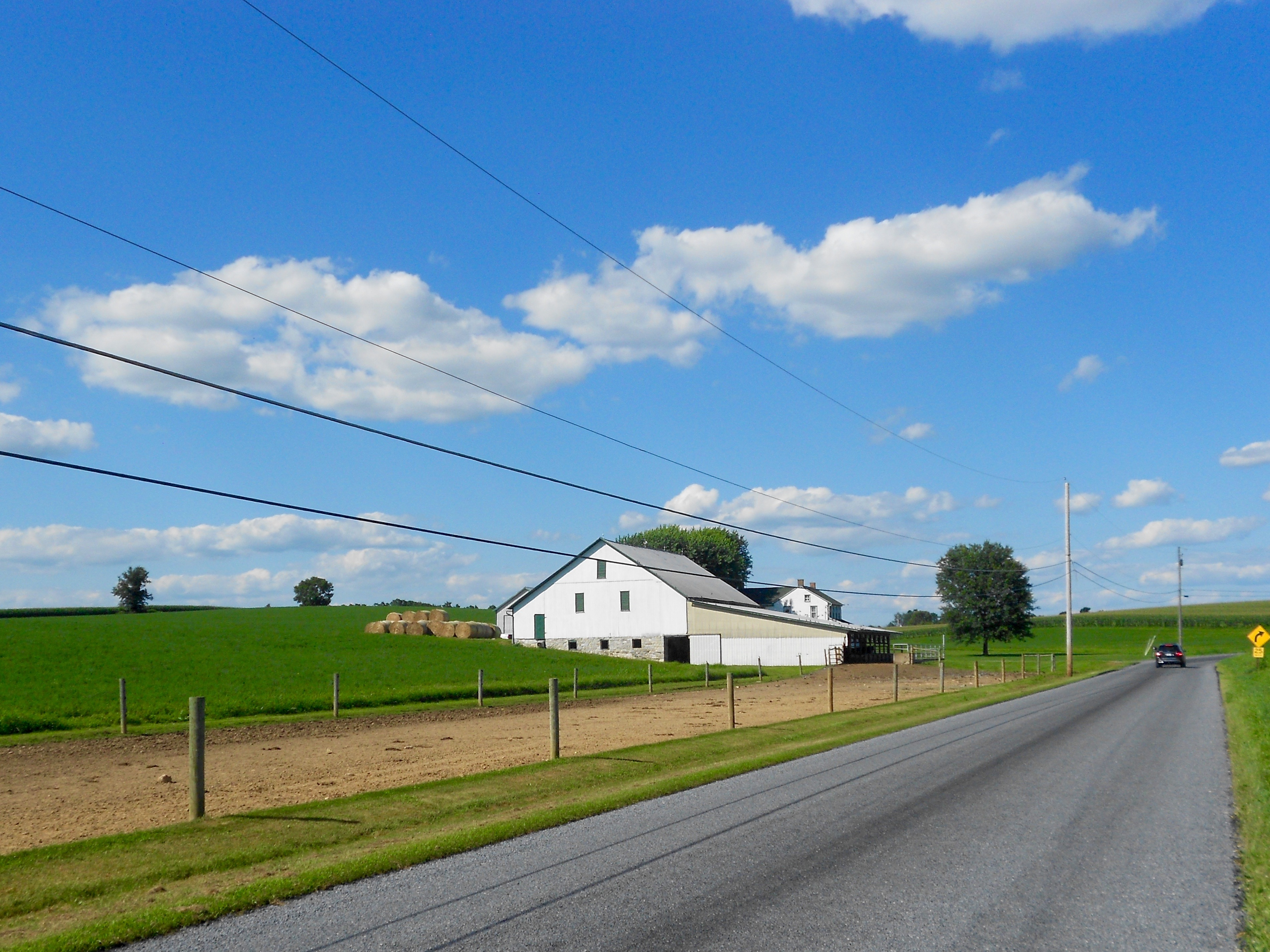 Barn in Monroe Township, Cumberland County, Pennsylvania